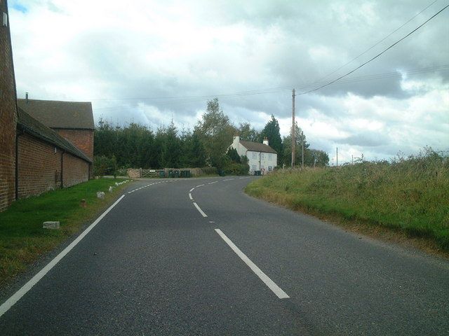 The Old Post Office, near to Billingsley, Shropshire, Great Britain. The Old Post Office Billingsley, next to the entrance to Church Farm